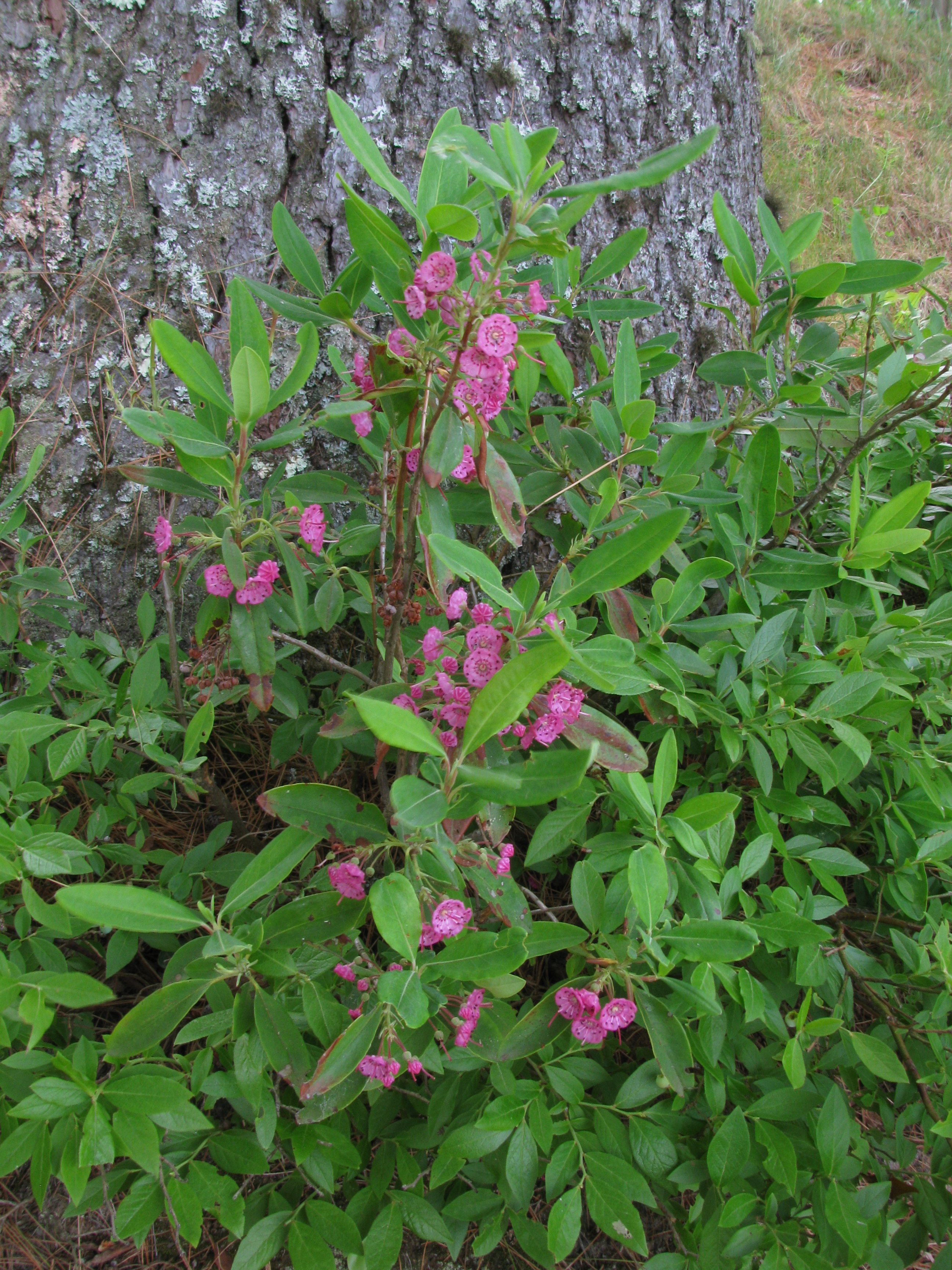 Sheep Laurel in bloom, growing at the base of a pine tree (Pinus) among some low-bush blueberry (Vaccinium) plants.